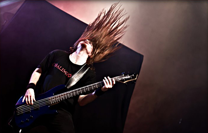 Emiliano Chiusano